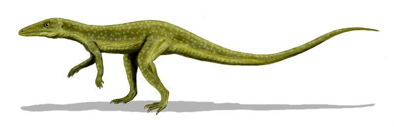 Saltoposuchus connectens, a sphenosuchian from the Upper Triassic of Germany, pencil drawing